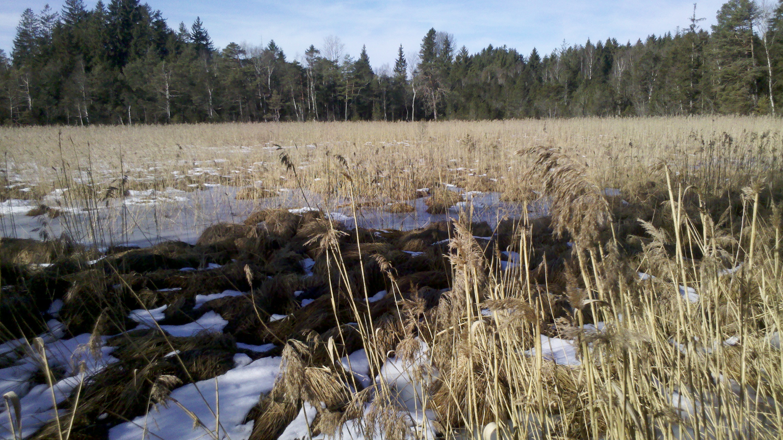 Egelsee look to the west